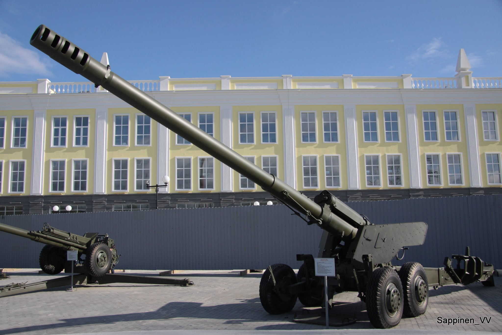 Verkhnyaya Pyshma Tank Museum 2012